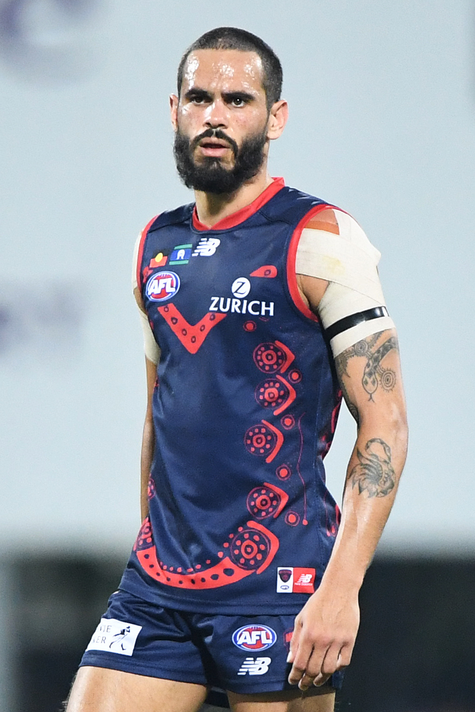 Jeff Garlett of Melbourne during the 2019 AFL round 11 match between Melbourne and Adelaide at TIO Stadium on Saturday, 1 June 2019 in Darwin, Northern Territory.